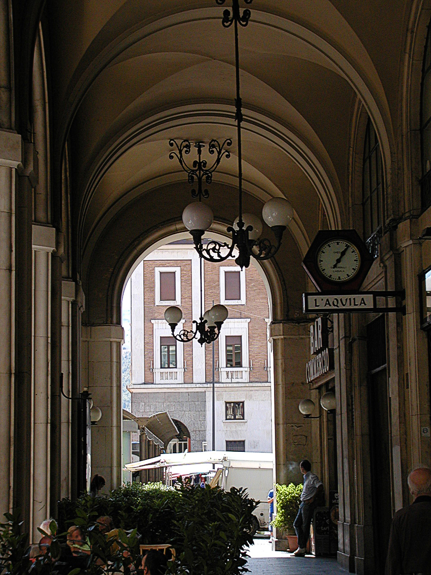 L'Aquila, arcades along Corso Vittorio Emanuele, at the end on can see Piazza Duomo